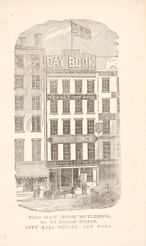 The New York headquarters of the Weekly Day Book, pictured in the back matter of the third edition of John H. Van Evrie's Negroes and Negro "Slavery"